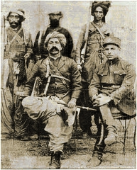 Ameer Dost Mohammad Khan Baranzai Baloch with his aides and body guards